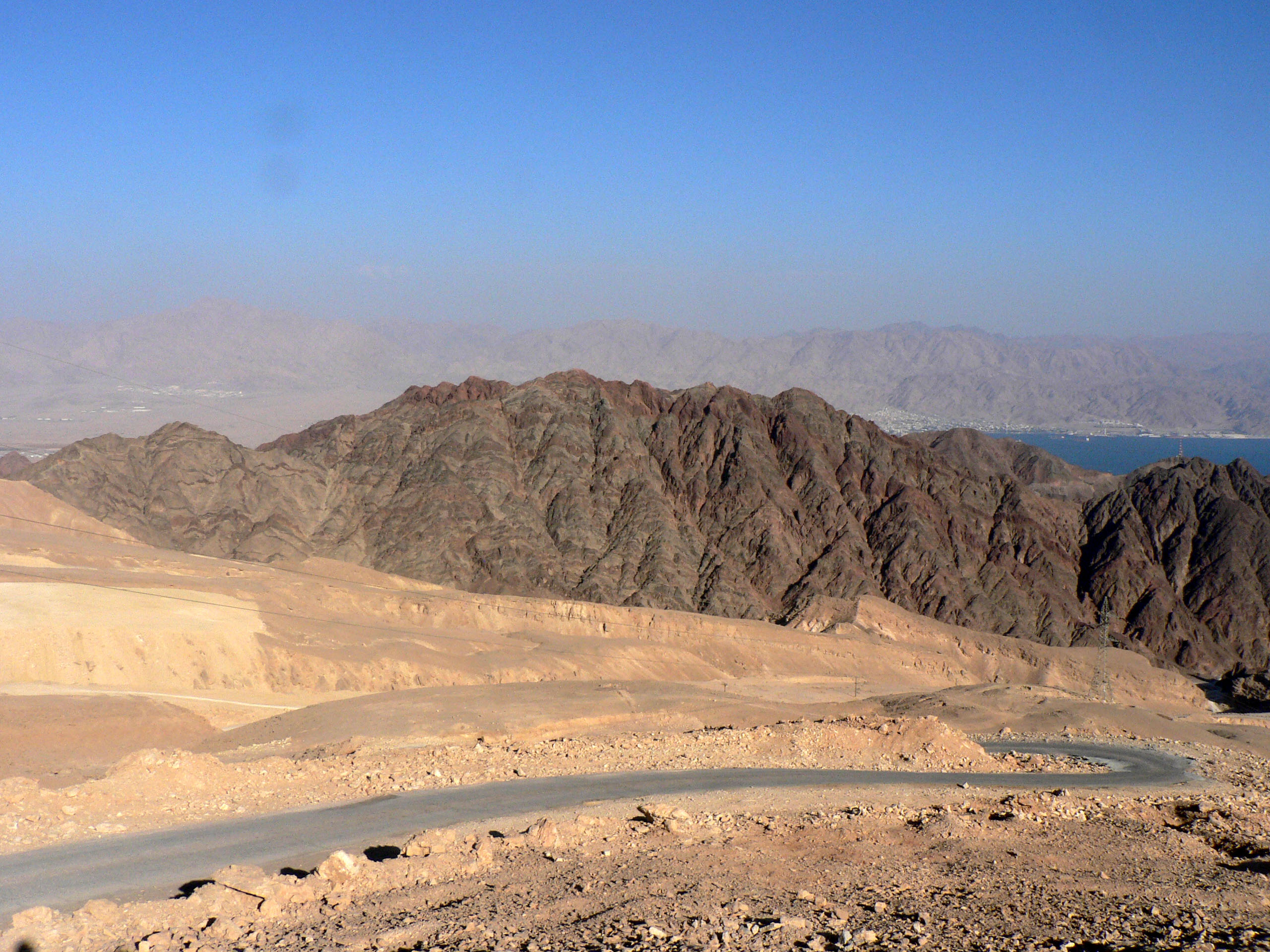 Salomon Mountain (Har Shlomo) near Eilat, Israel הר שלמה, אילת